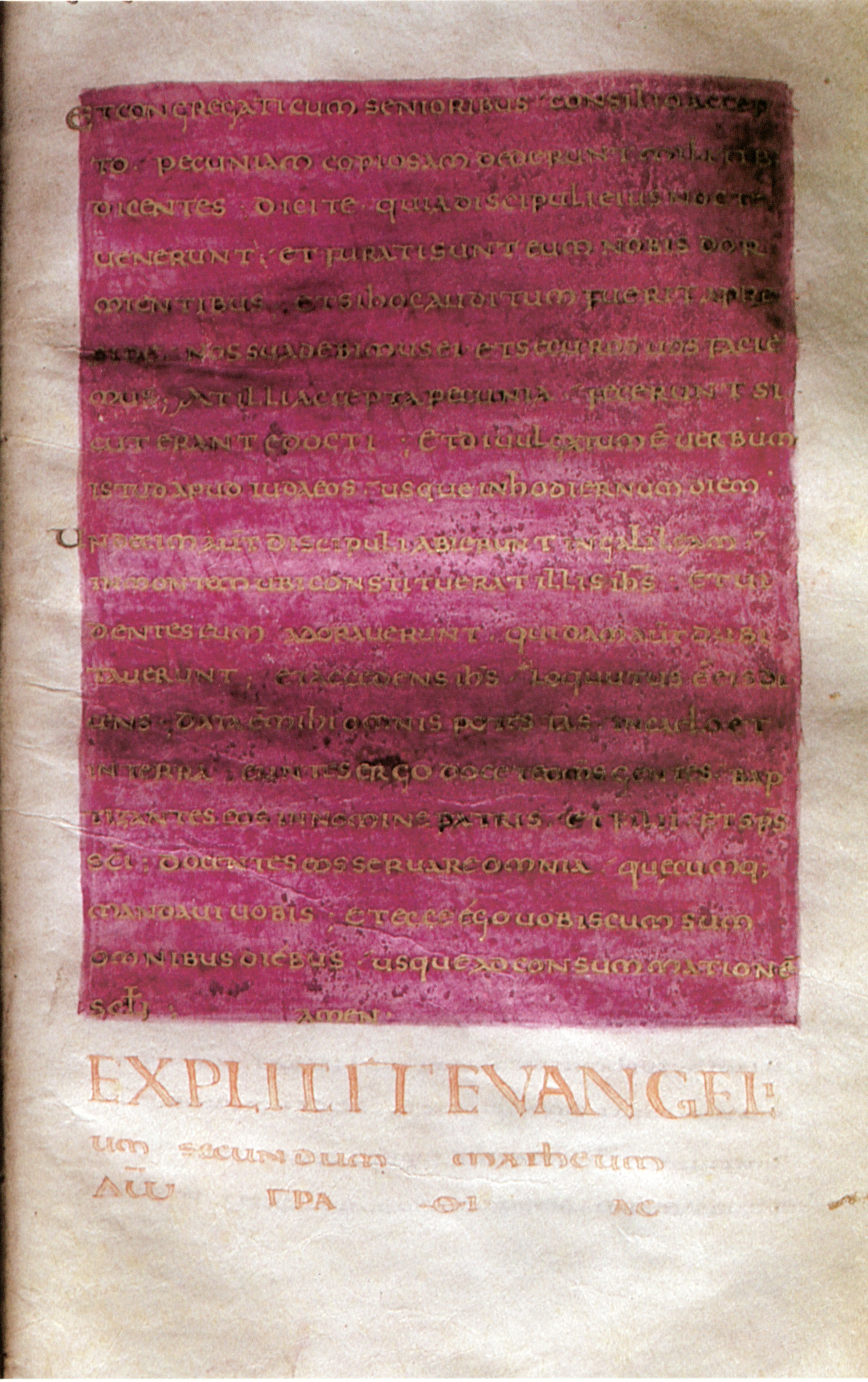 fol. 68r of Strahov MS DF III 3: purpur page